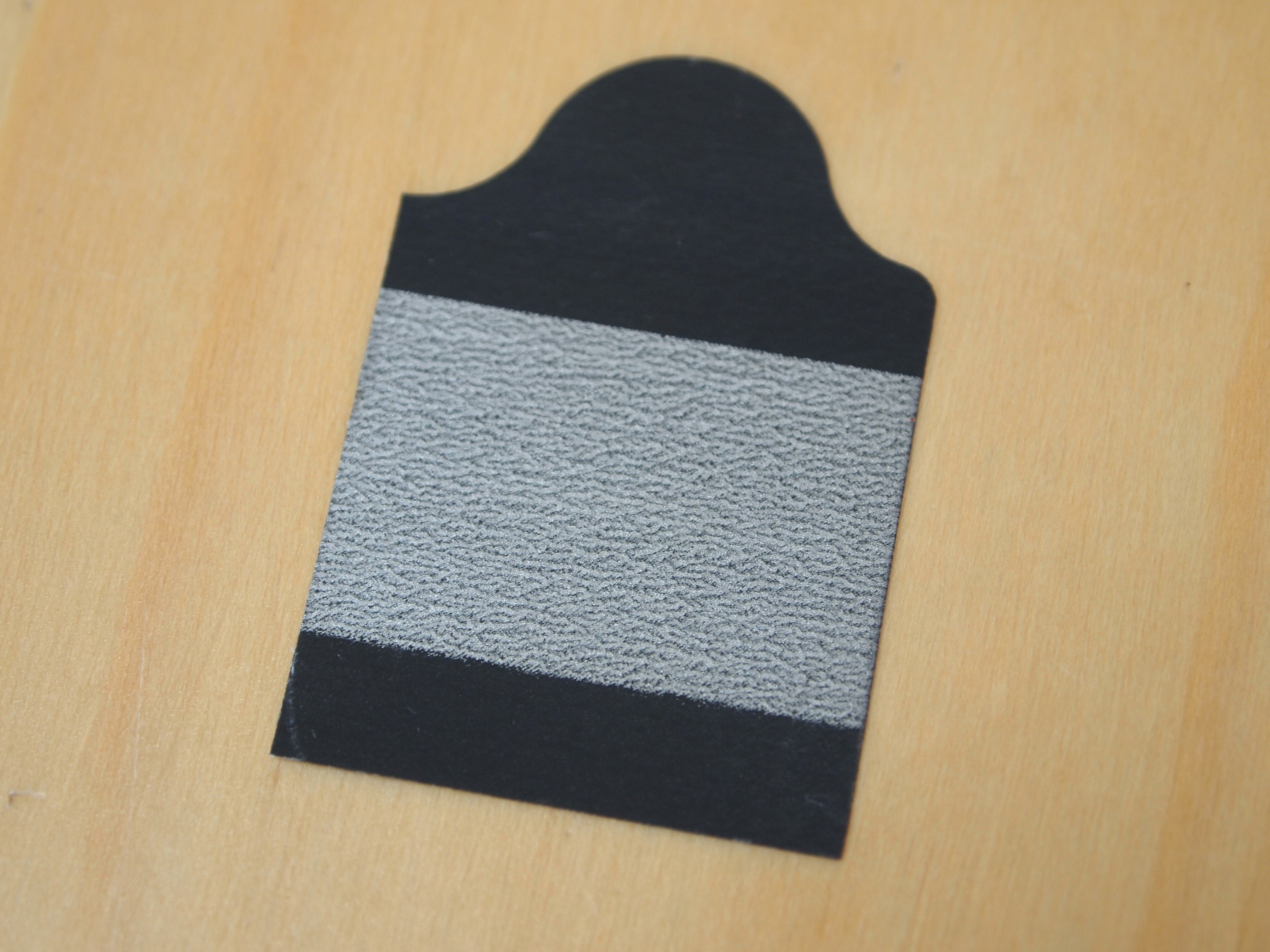 Tab electrode (silver/silver chloride sensor) used in electrocardiography (ECG)